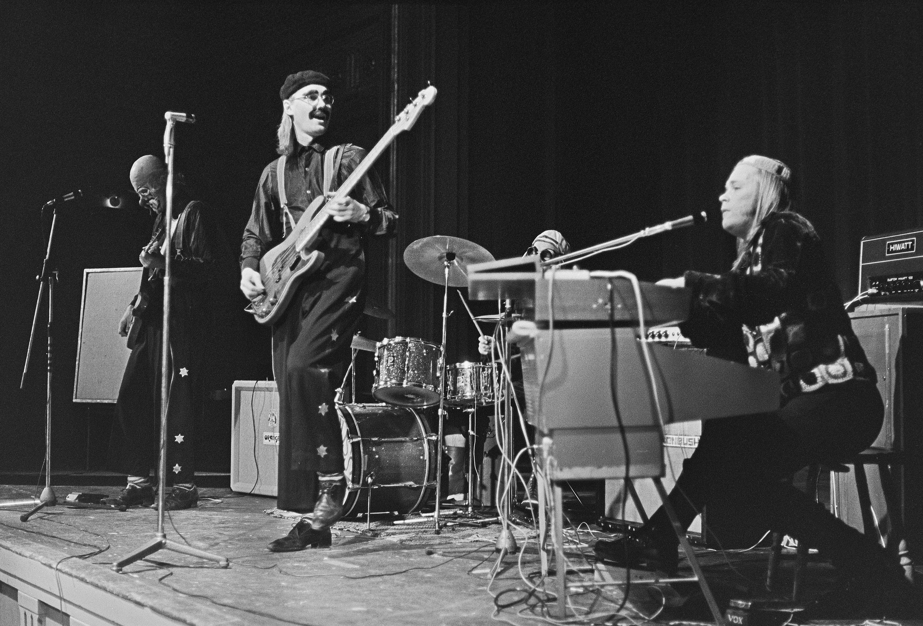 Photograph of the Finnish band Hullujussi playing at Vanha Ylioppilastalo, Helsinki. Heimo Holopainen, bass; Tapio Niemelä, keyboards.